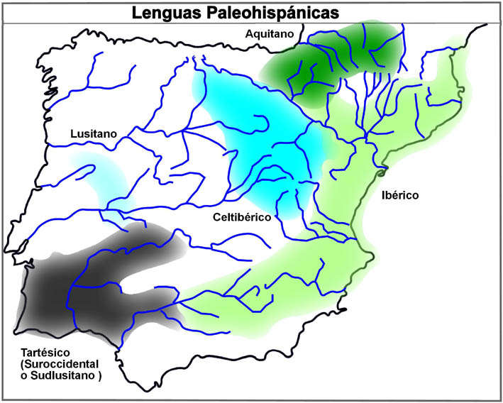 Paleohispanic languages map. Spanish